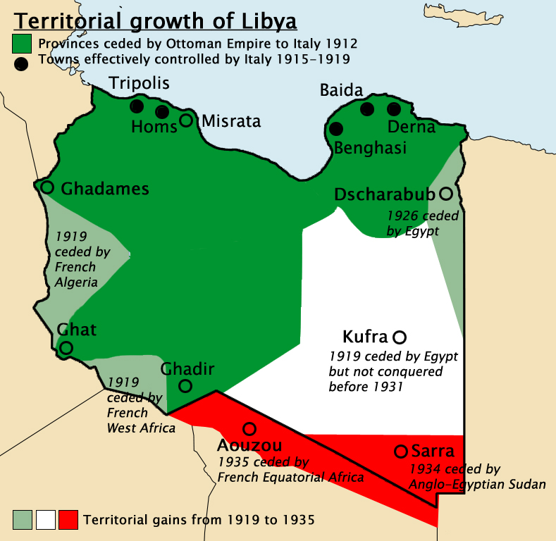 Territorial Expansion of Libya under Italian Colonial rule